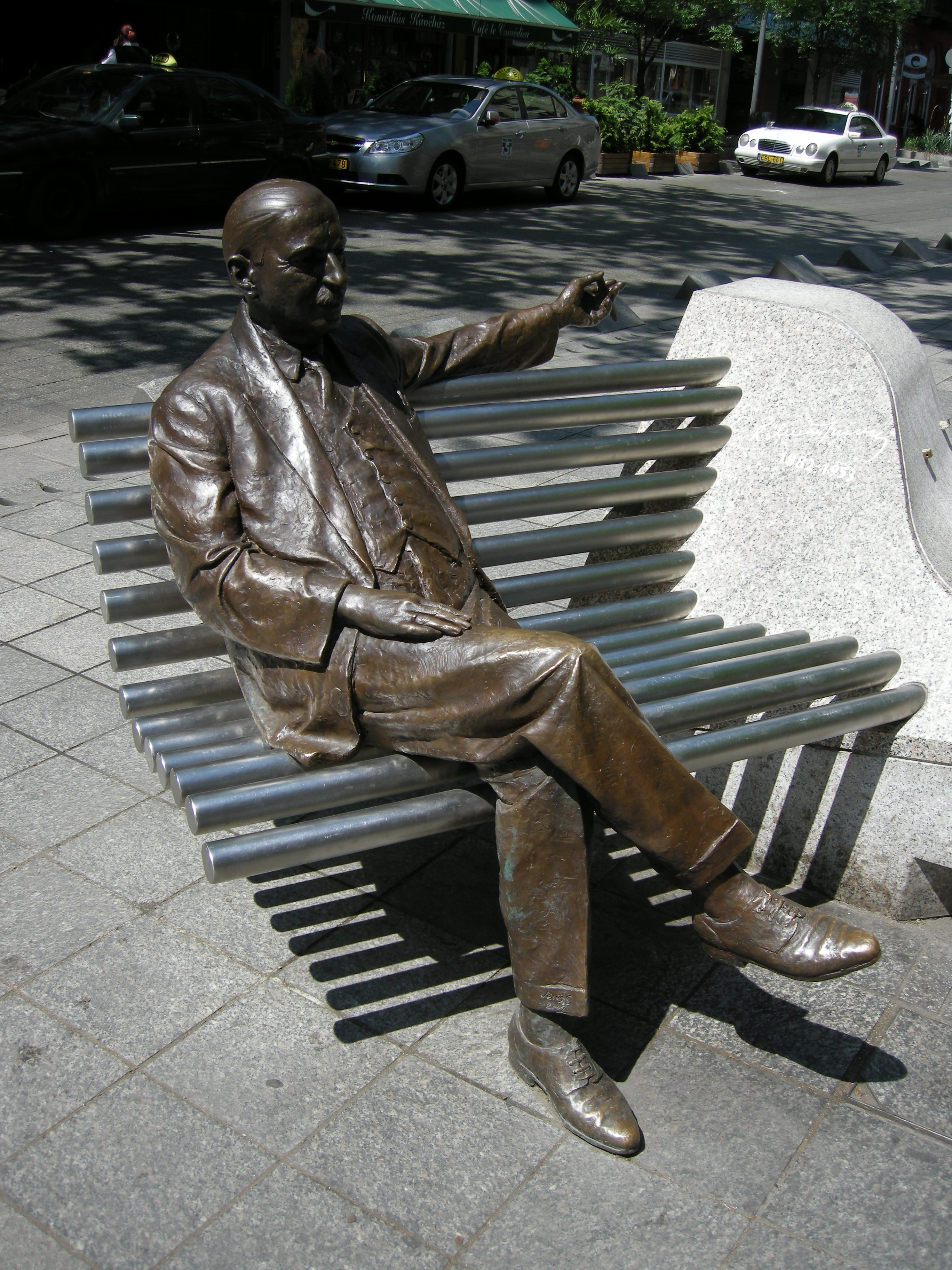 Statue of Emmerich Kálmán by Gábor Veres. Nagymező utca, Budapest District VI, Hungary